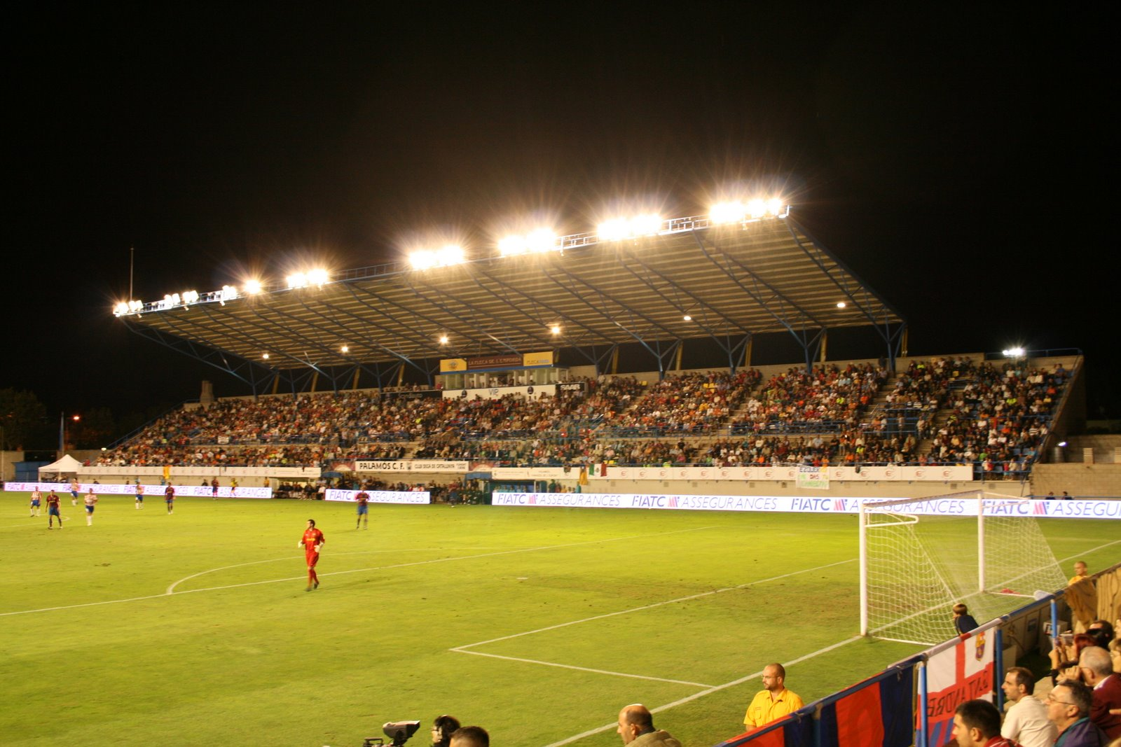 Nou Municipal de Palamós stadium. Match between Girona FC & FC Barcelona (Catalunya Cup).